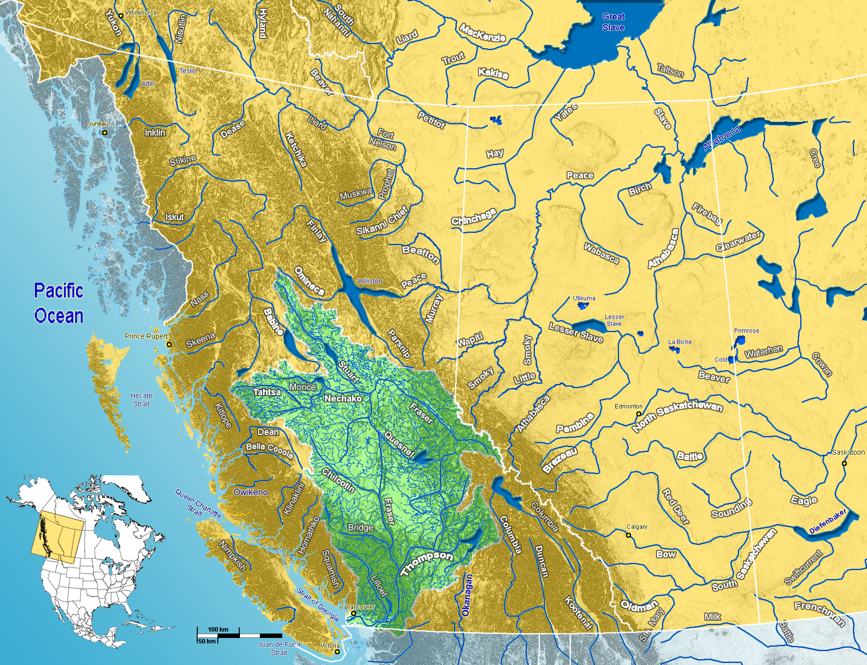 The watershed of the Fraser River in western Canada.